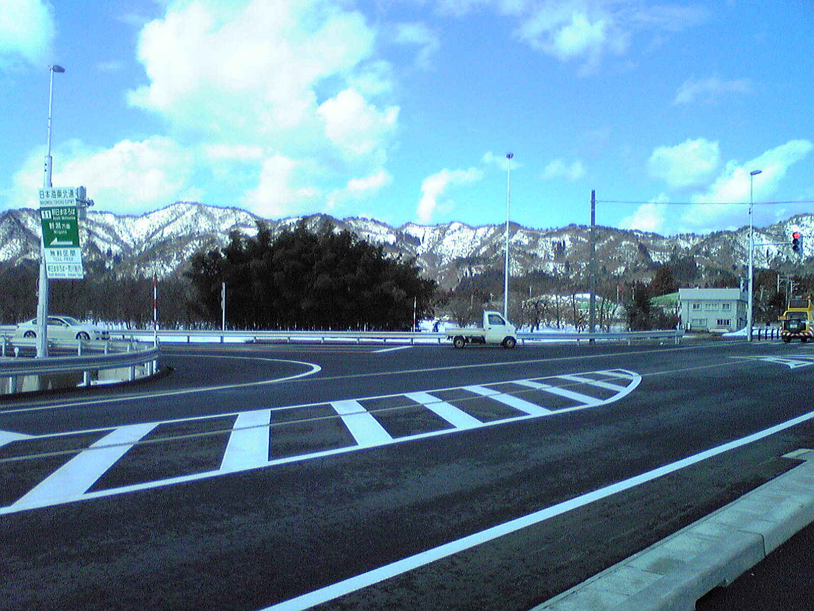 Asahi-mahoroba Interchange on Nihonkai-Tohoku Expressway, Japan, from the east side of the interchange